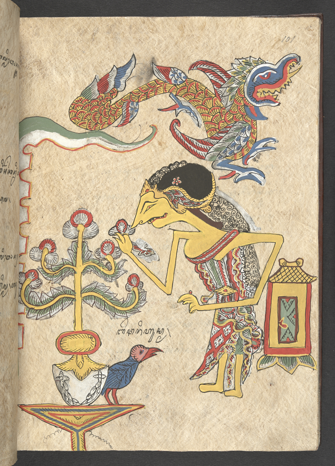 The 12th wuku, Kuningan, from a Pawukon from Yogyakarta, 1807. British Library